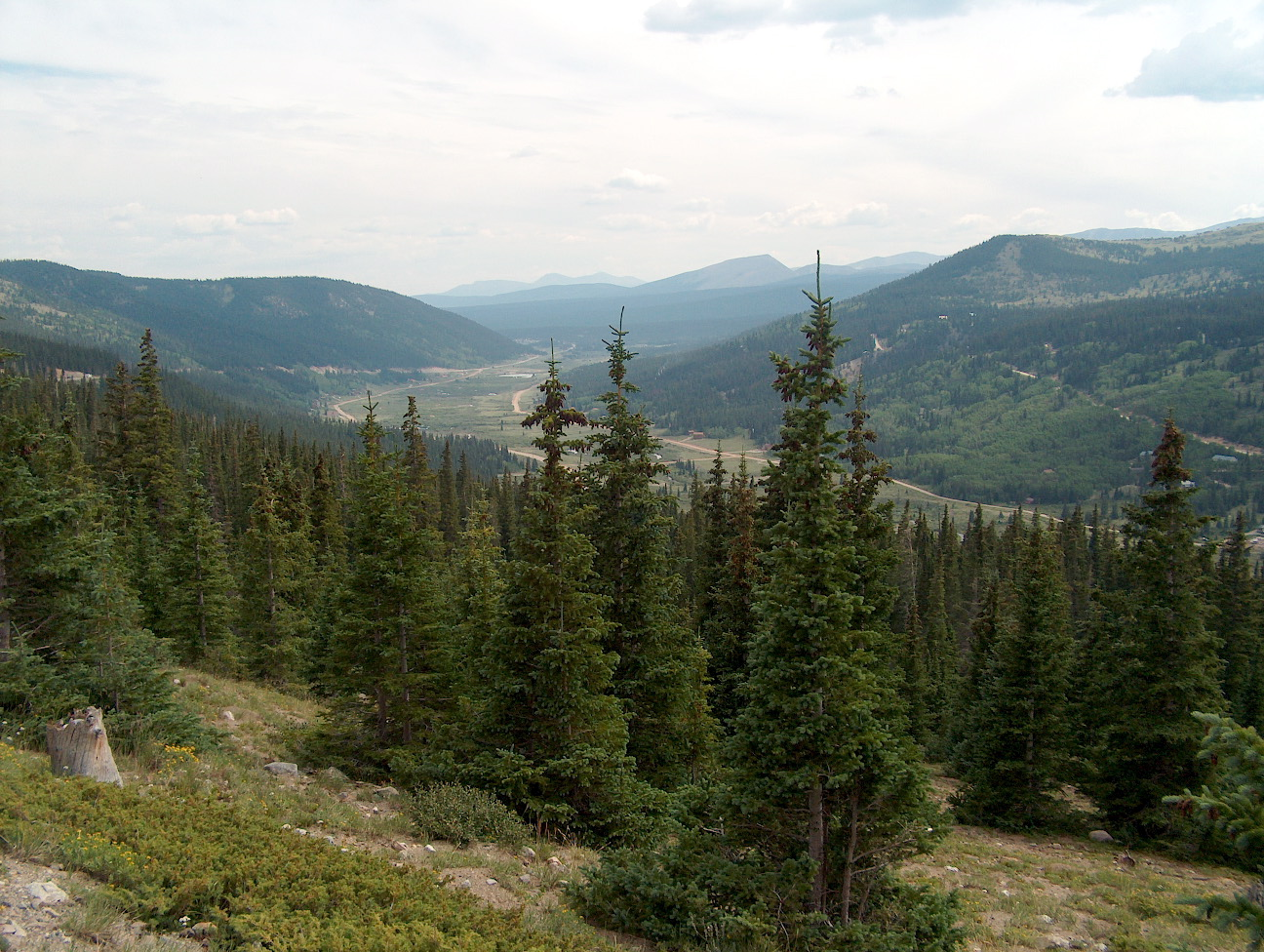 View south from Hoosier Pass in the Rocky Mountains of Colorado. Photo by Ken Gallager, July 28, 2006.